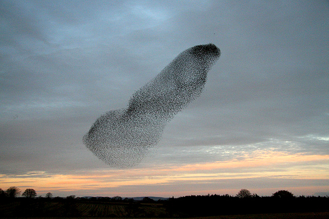 A wedge of starlings A large flock of starlings are performing an aerobatic display over fields near Gretna before roosting for the night in conifer plantations. The birds congregate at sunset, first in small groups and then in larger clusters, to form a mass of over one million birds creating elaborate shapes and patterns in the evening sky. Viewed from the B7076 where the amazing spectacle was watched by several people.